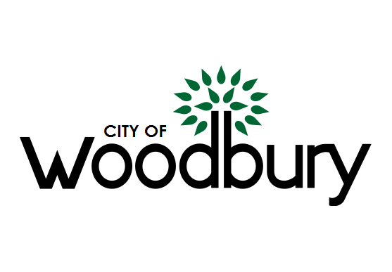 The official city flag of Woodbury, Minnesota, consisting of the words "CITY OF WOODBURY" written in black lettering, and around the "D" and "B" of "WOODBURY", two rings of generic green leaves.